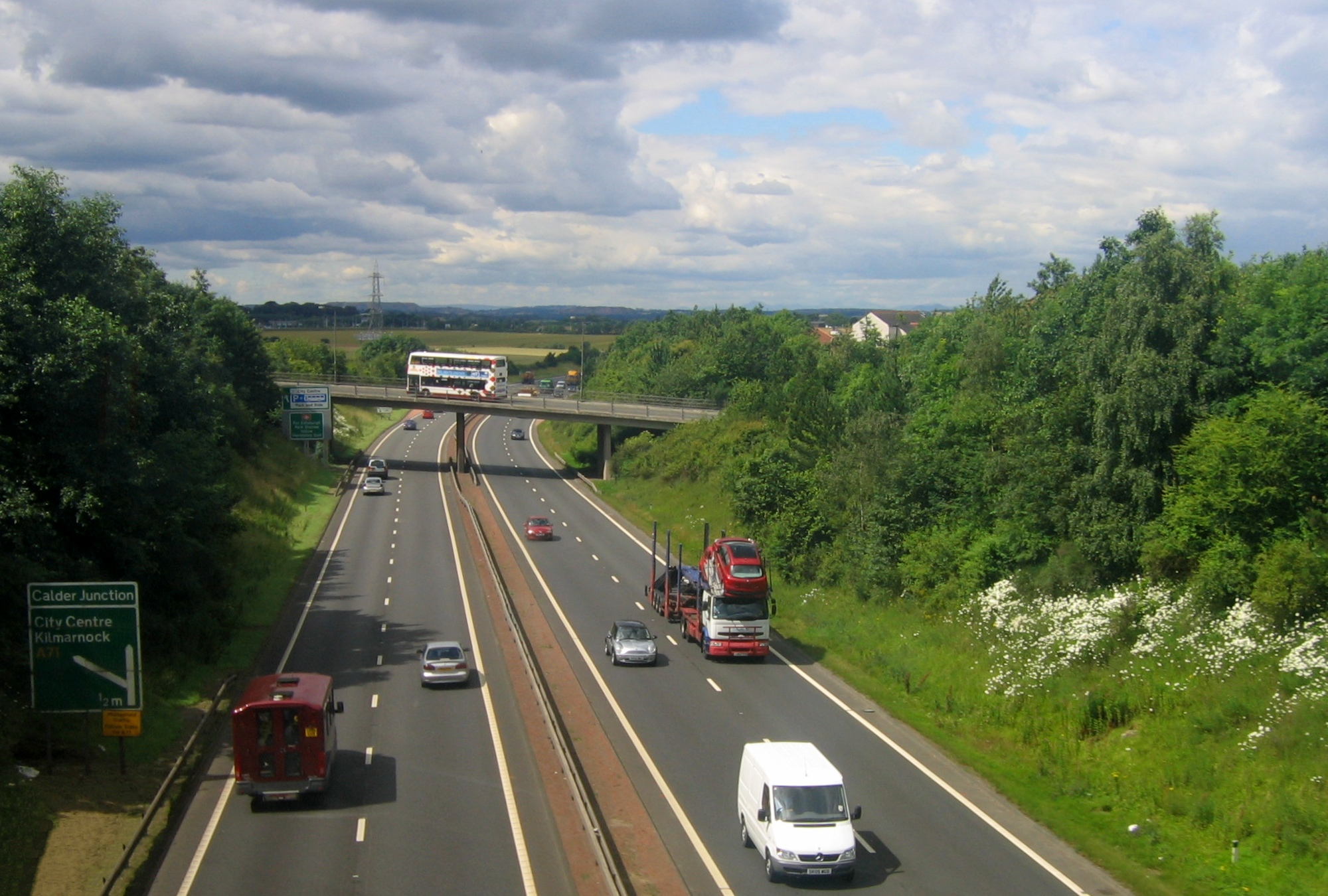 Edinburgh City Bypass near Wester Hailes. Slight photoediting in the left bottom corner to remove bridge railing.